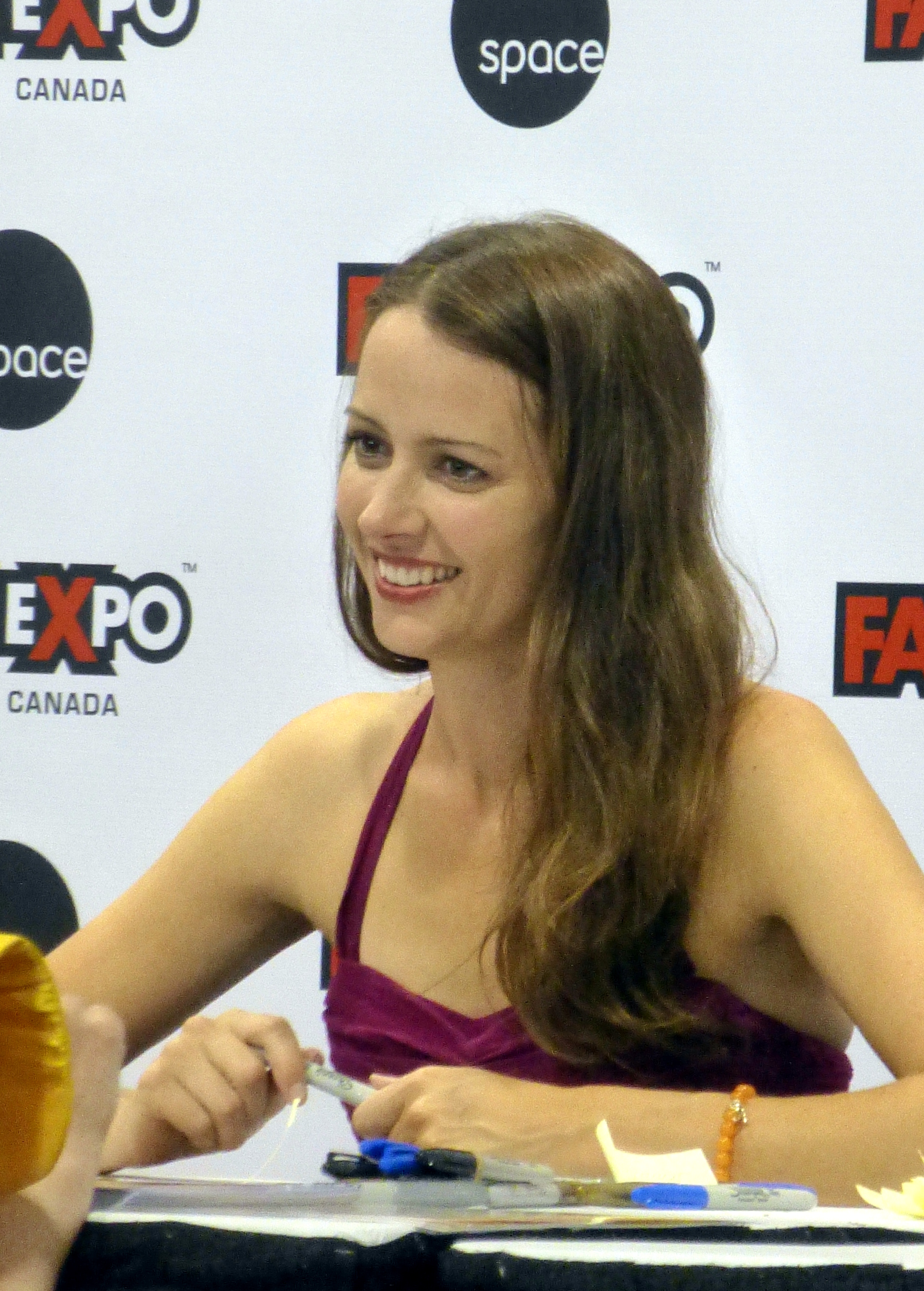 Amy Acker 01